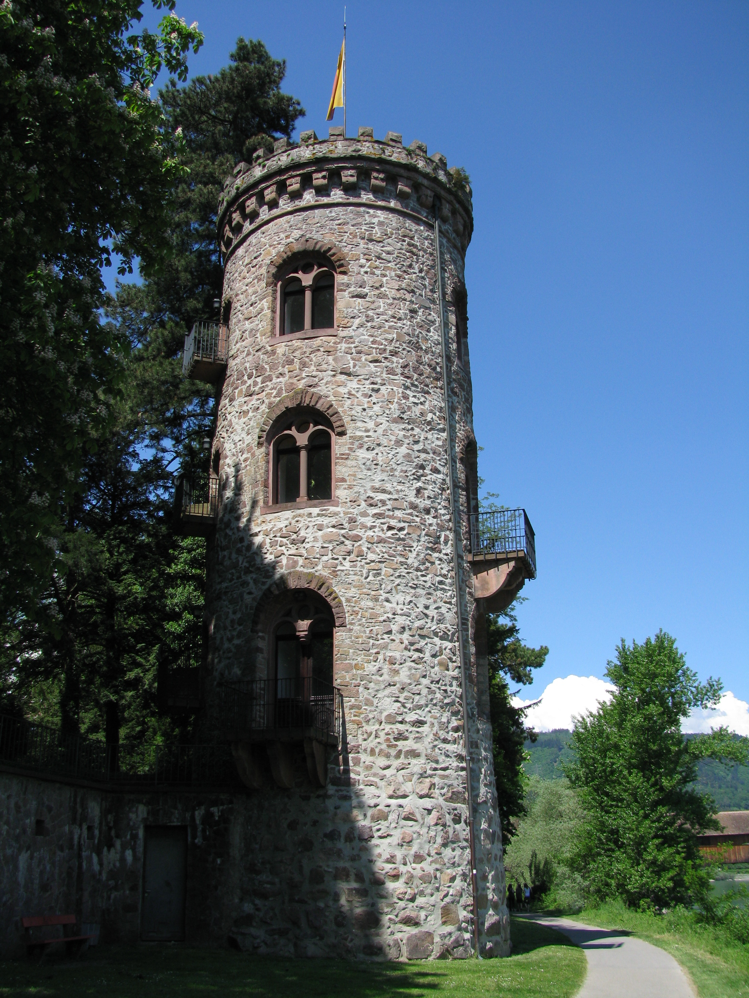 The «Diebsturm» in Bad Säckingen